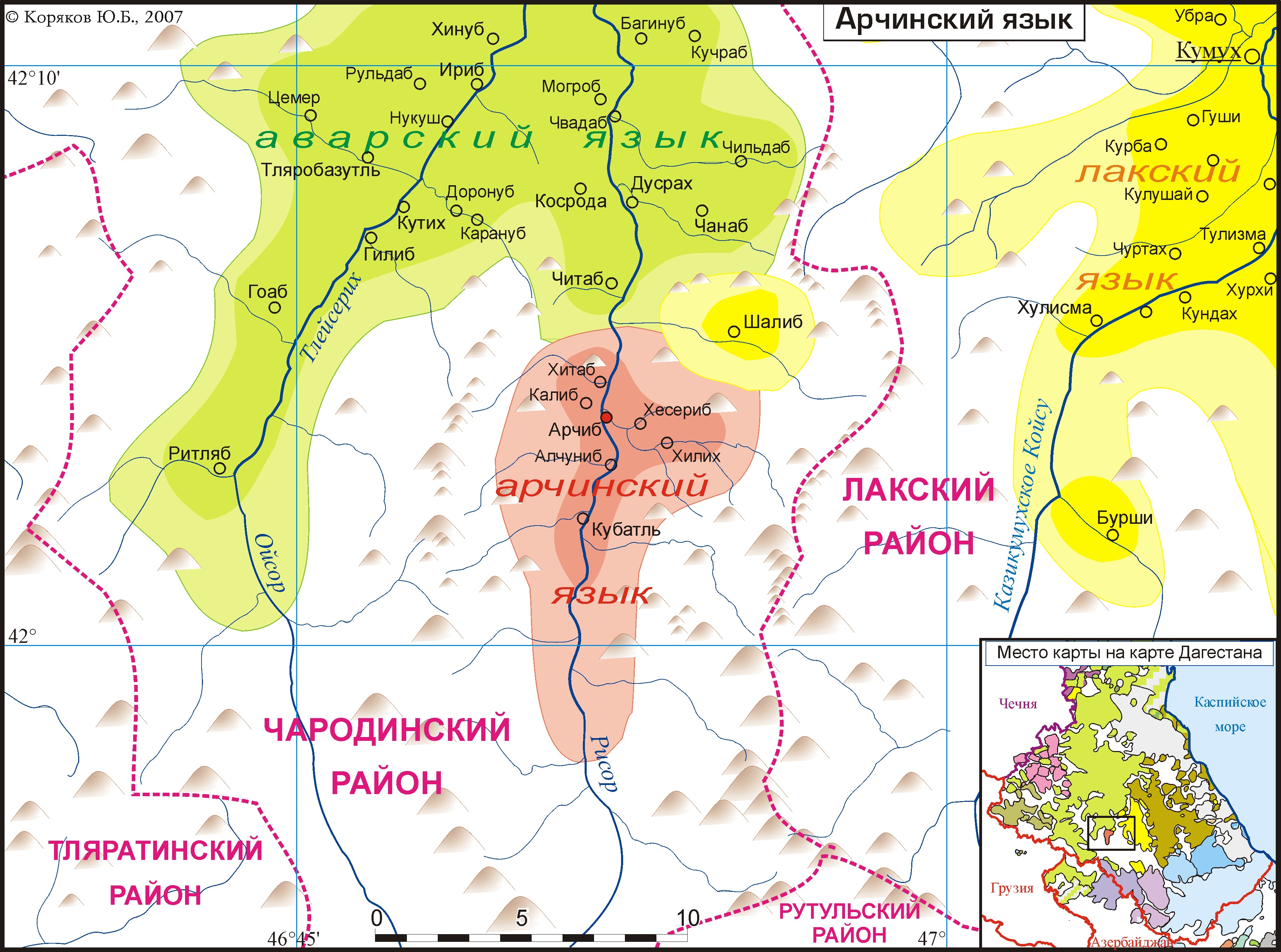 Map of Archi language. Map of the Archi language and the Archi villages. Archib is the village marked red in the middle with its name in the Cyrillic alphabet, Арчиб.